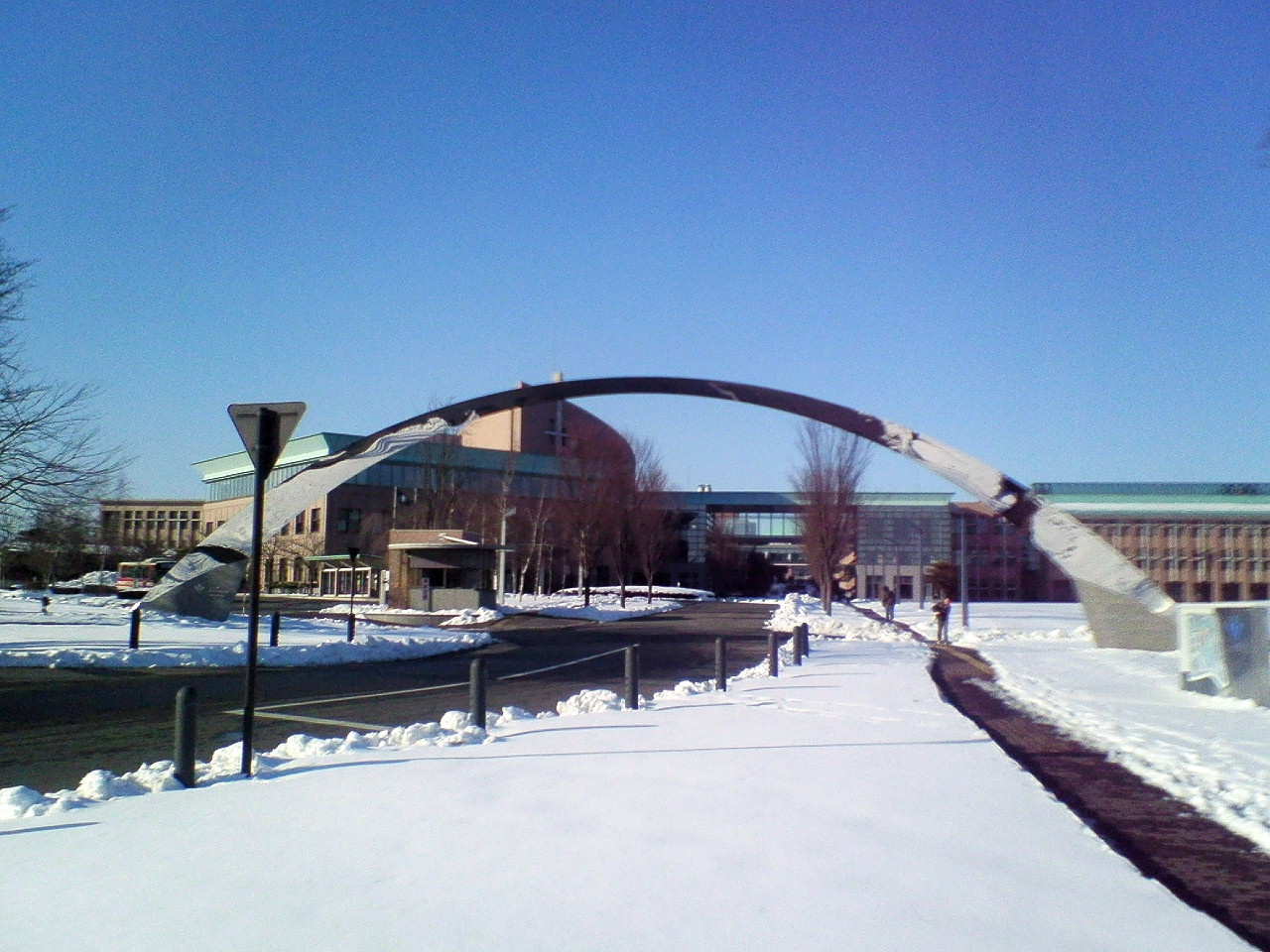 Iwate Prefectural University